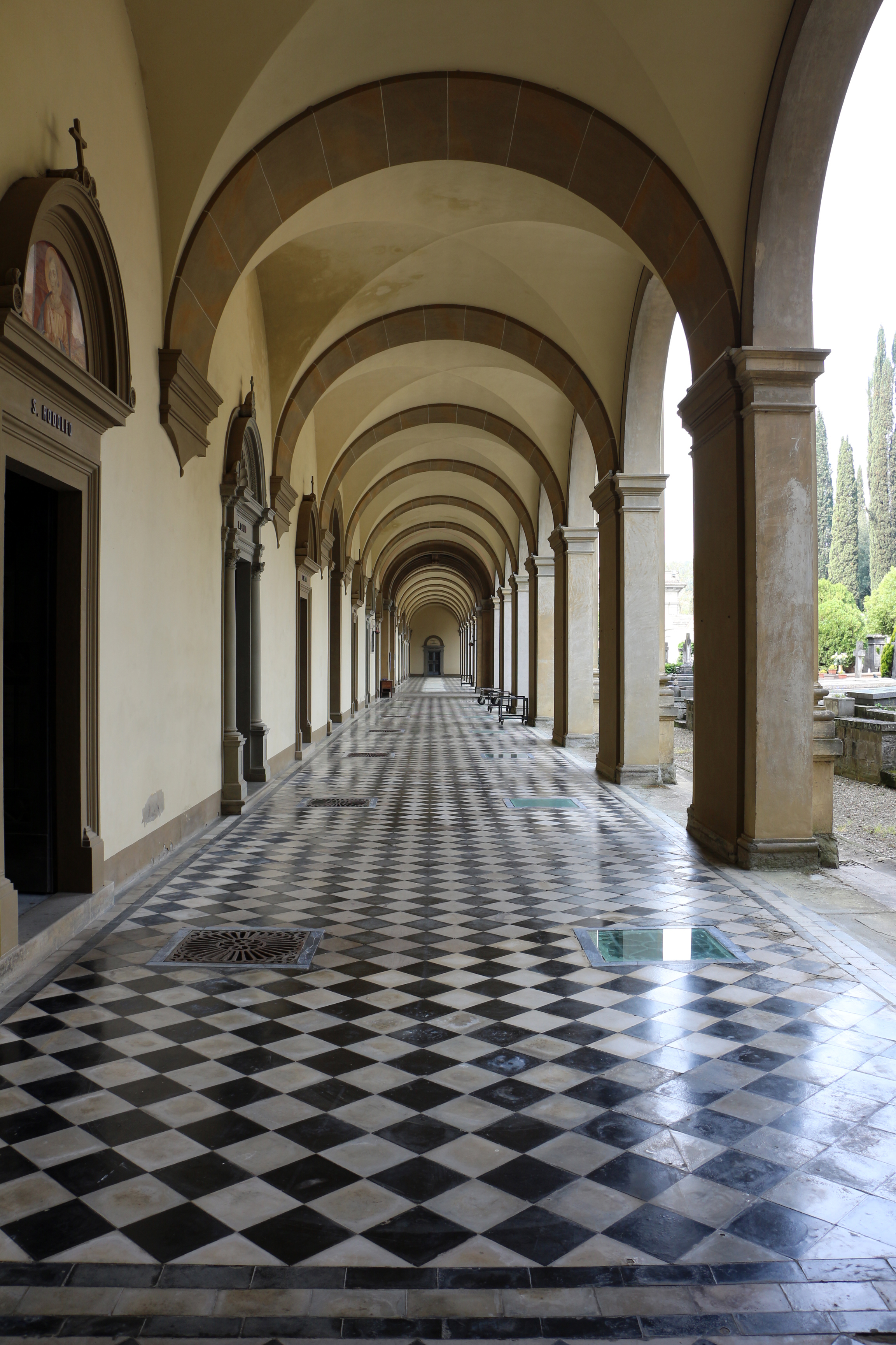 Cimitero Monumentale della Misericordia (Antella)